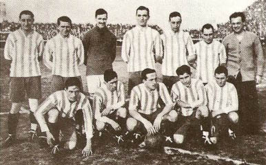 Argentine football team Racing Club in 1925, the year when obtaining its 9th. title in Primera División.